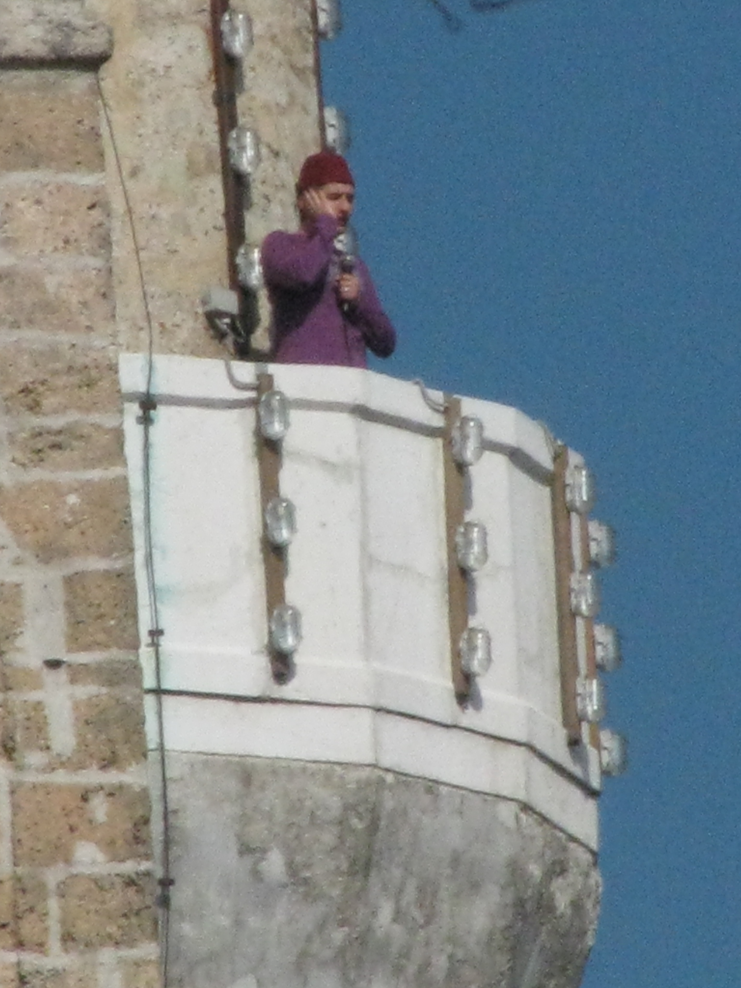 Call to prayer - Gazi Husrev-beg Mosque, Sarajevo